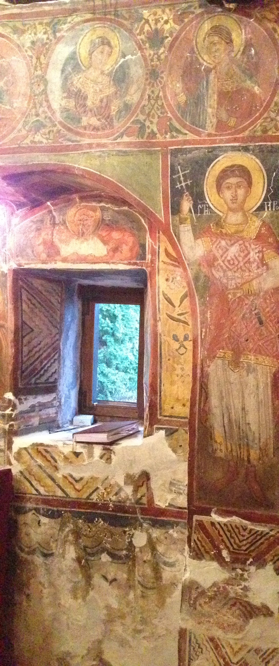 The Monastery of the Theotokos in the Sićevo